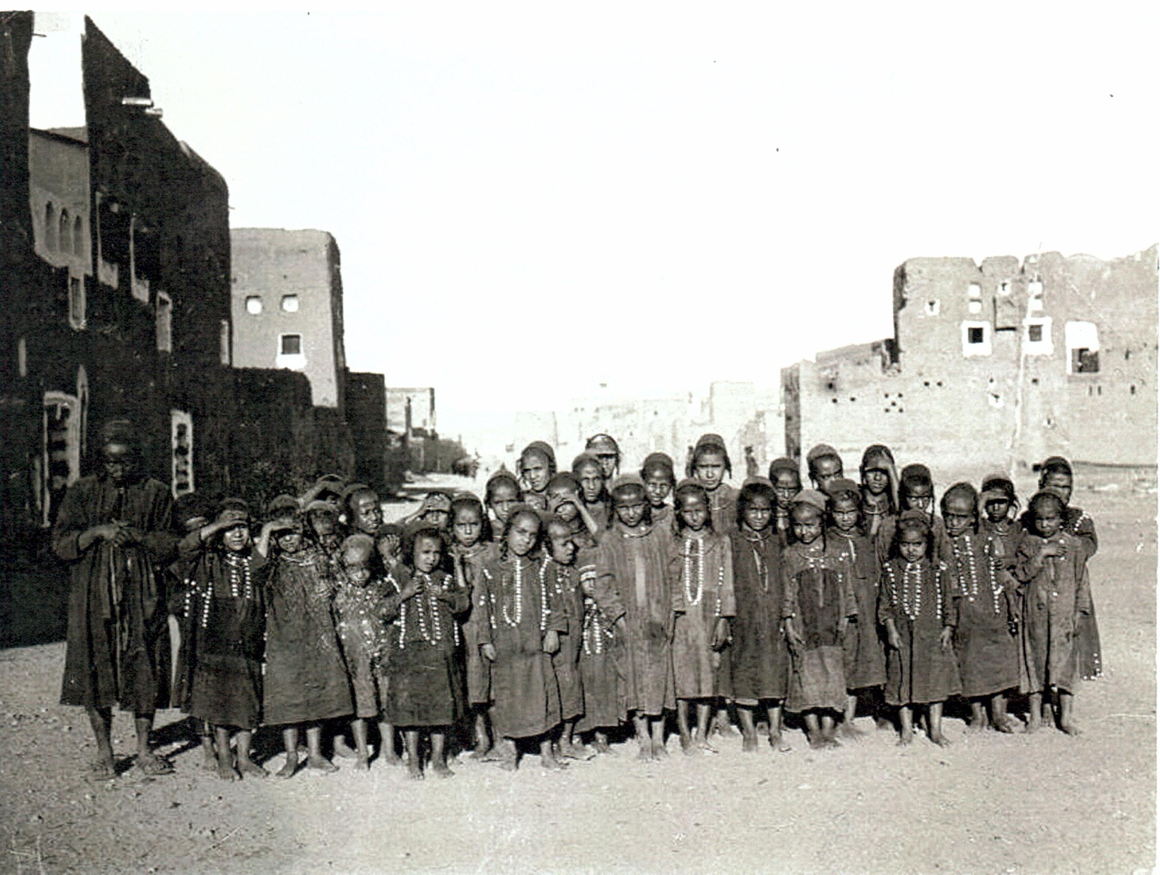 A photo of Jewish children gathered in Sana'a, Yemen, taken by Hermann Burkhardt in circa 1909. To be posted in Mawza Exile. Other information None